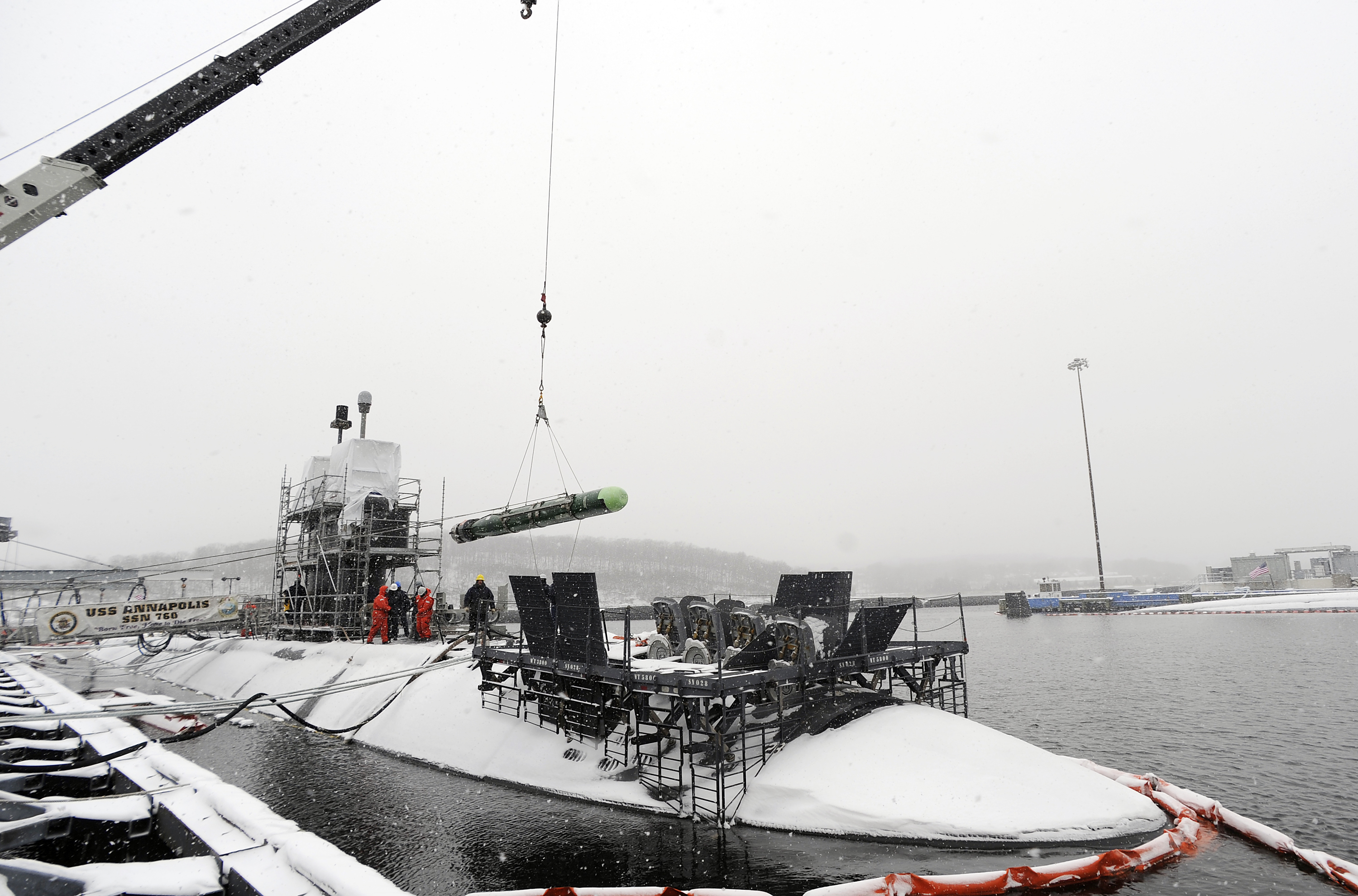 GROTON, Conn. (Jan 15, 2009) A MK 48 ADCAP torpedo is unloaded from the fast-attack submarine USS Annapolis (SSN 760) by Sailors from the Submarine Base New London weapons department during a snowstorm. (U.S. Navy photo by John Narewski/Released)